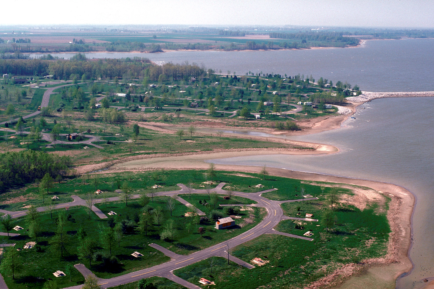 Aerial view of Carlyle Lake in Clinton County, Illinois, USA. The lake is impounded behind Carlyle Dam on the Kaskaskia River. The dam was constructed by the U.S. Army Corps of Engineers to create a water reservoir. The photograph shows the Coles Creek Recreation Area on the lake. Coordinates: 38°39′20.42″N 89°15′55.97″W / 38.6556722°N 89.2655472°W